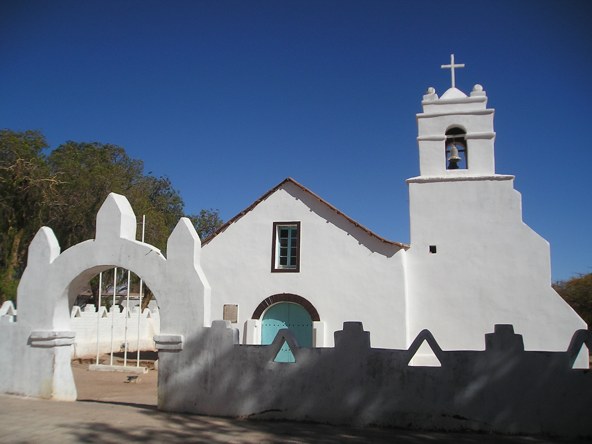 San Pedro de Atacama, Chile - the church